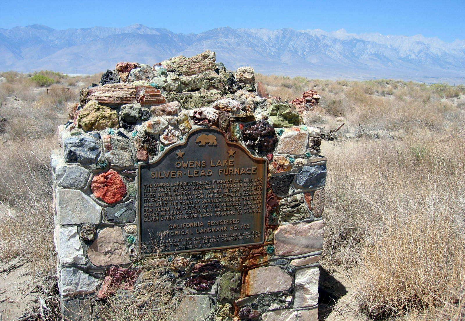 California Historical Landmark Marker #752 marking the site of the Owens Lake Silver-Lead Furnace in Swansea.